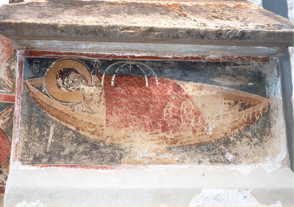 Painting on the wall shows the essentials of eucharisty - the bred on the paten is living Christus